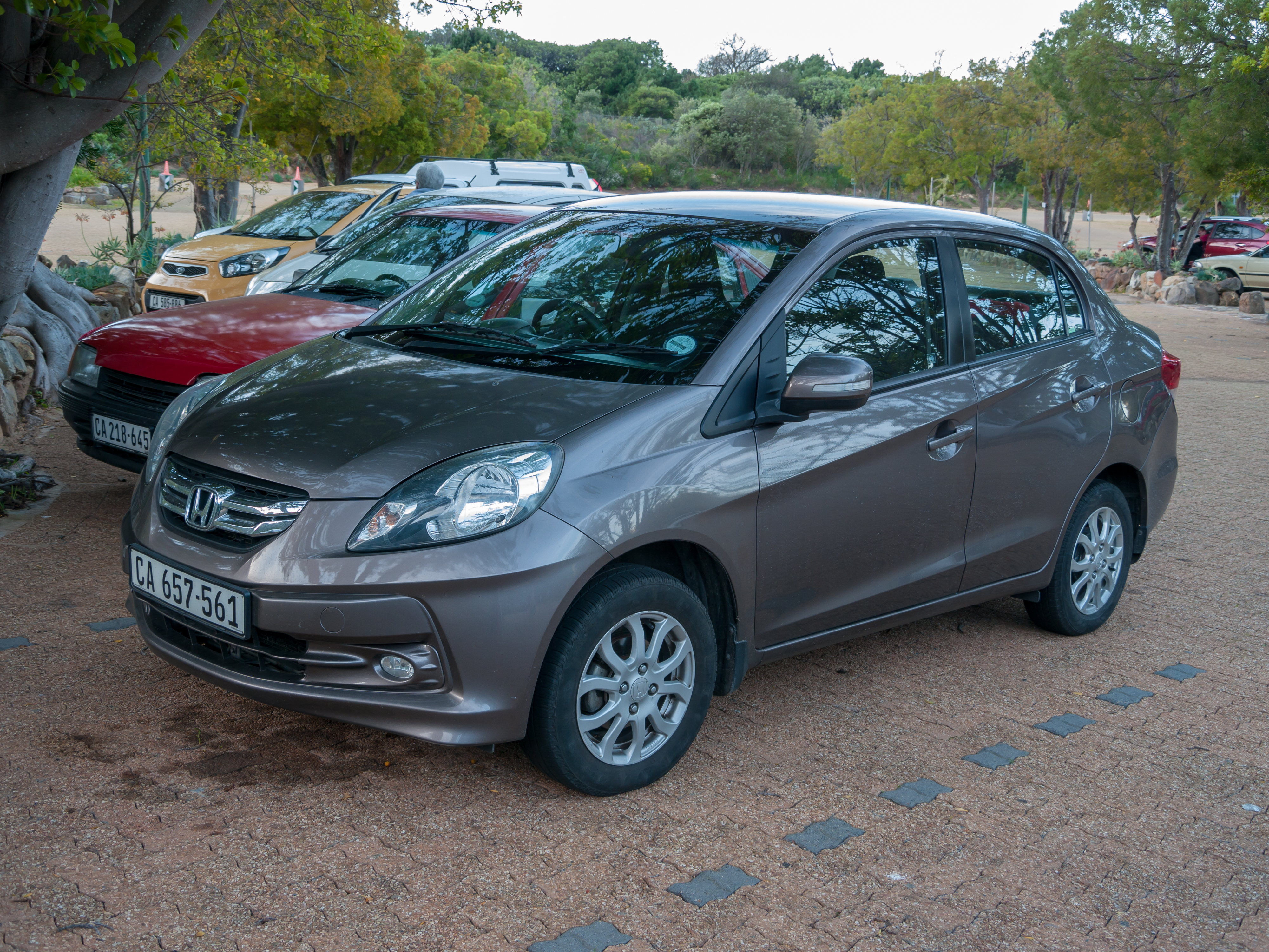 Honda Brio Amaze, Cape Town